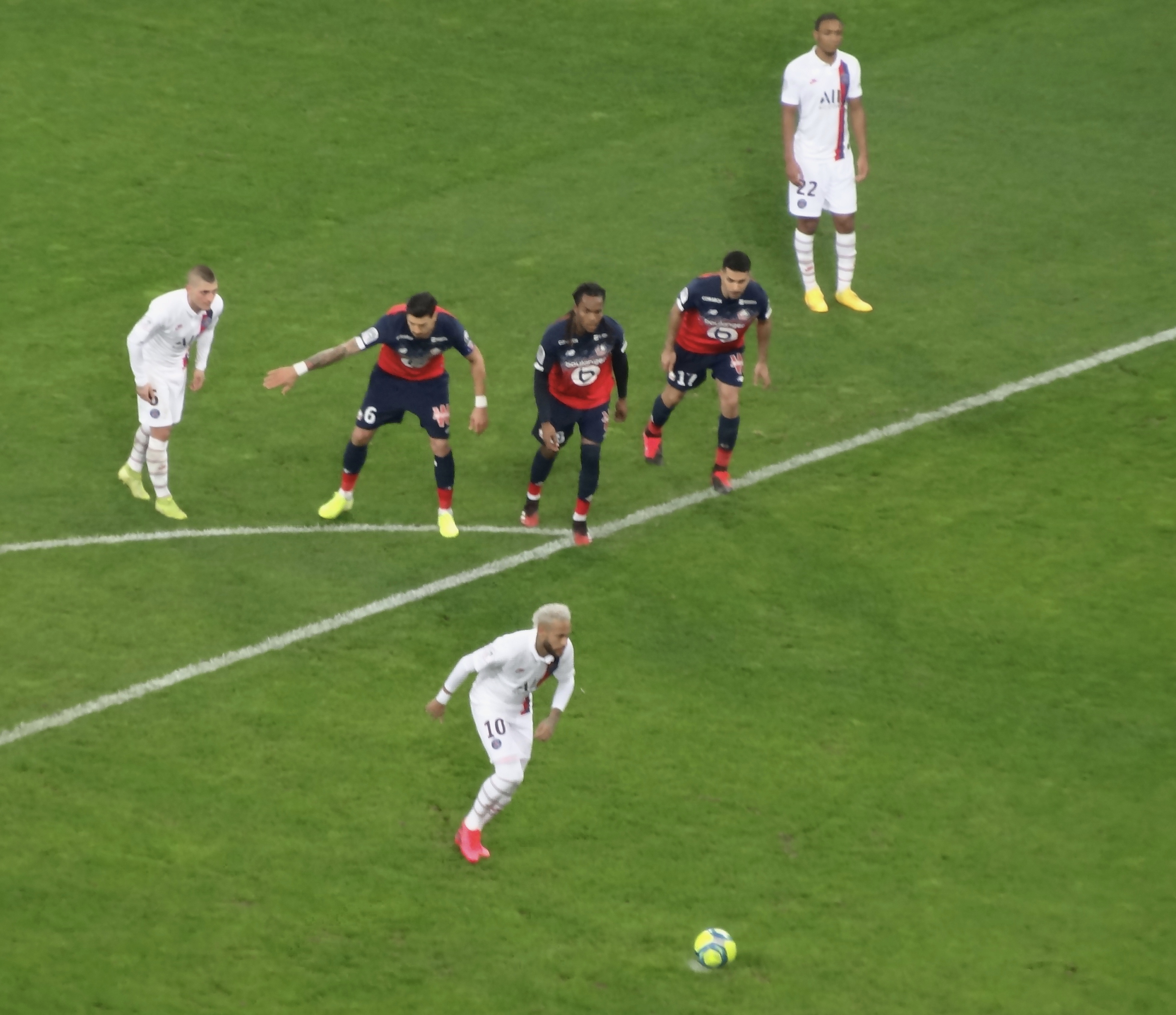 Neymar vs Lille